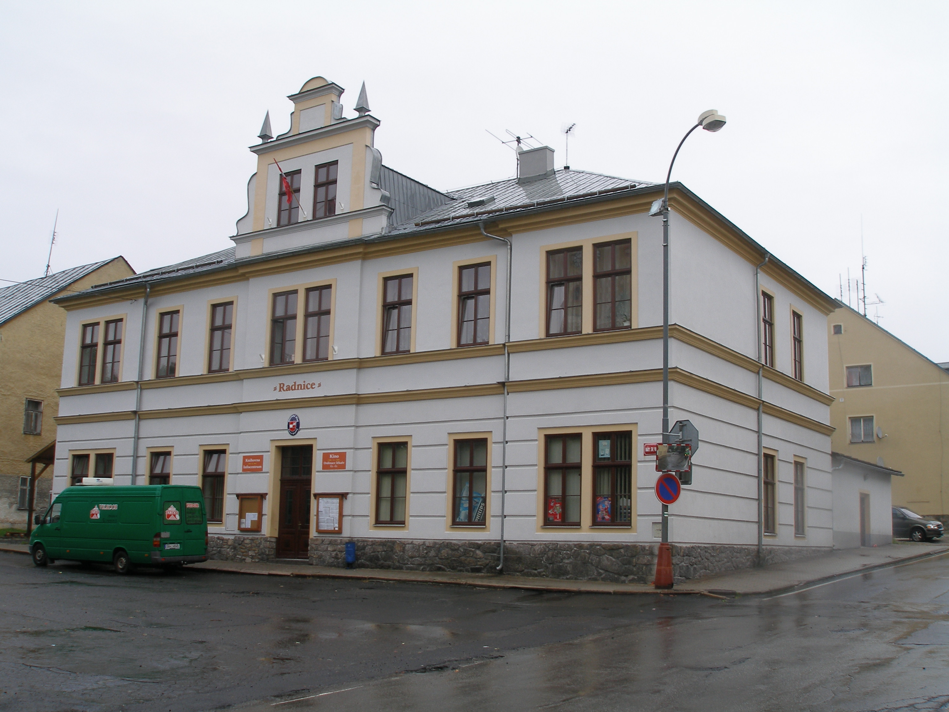 Horní Blatná - the Town Hall on the Eastern side of the St. Lawrence Square